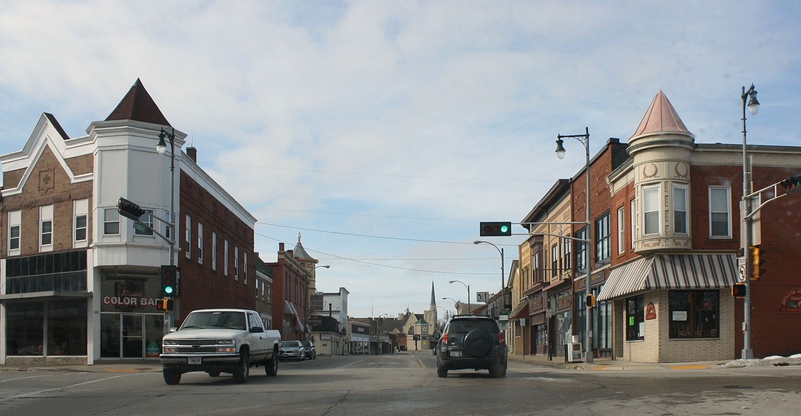 The Burlington Downtown Historic District on Wisconsin Highway 36, listed on the National Register of Historic Places.